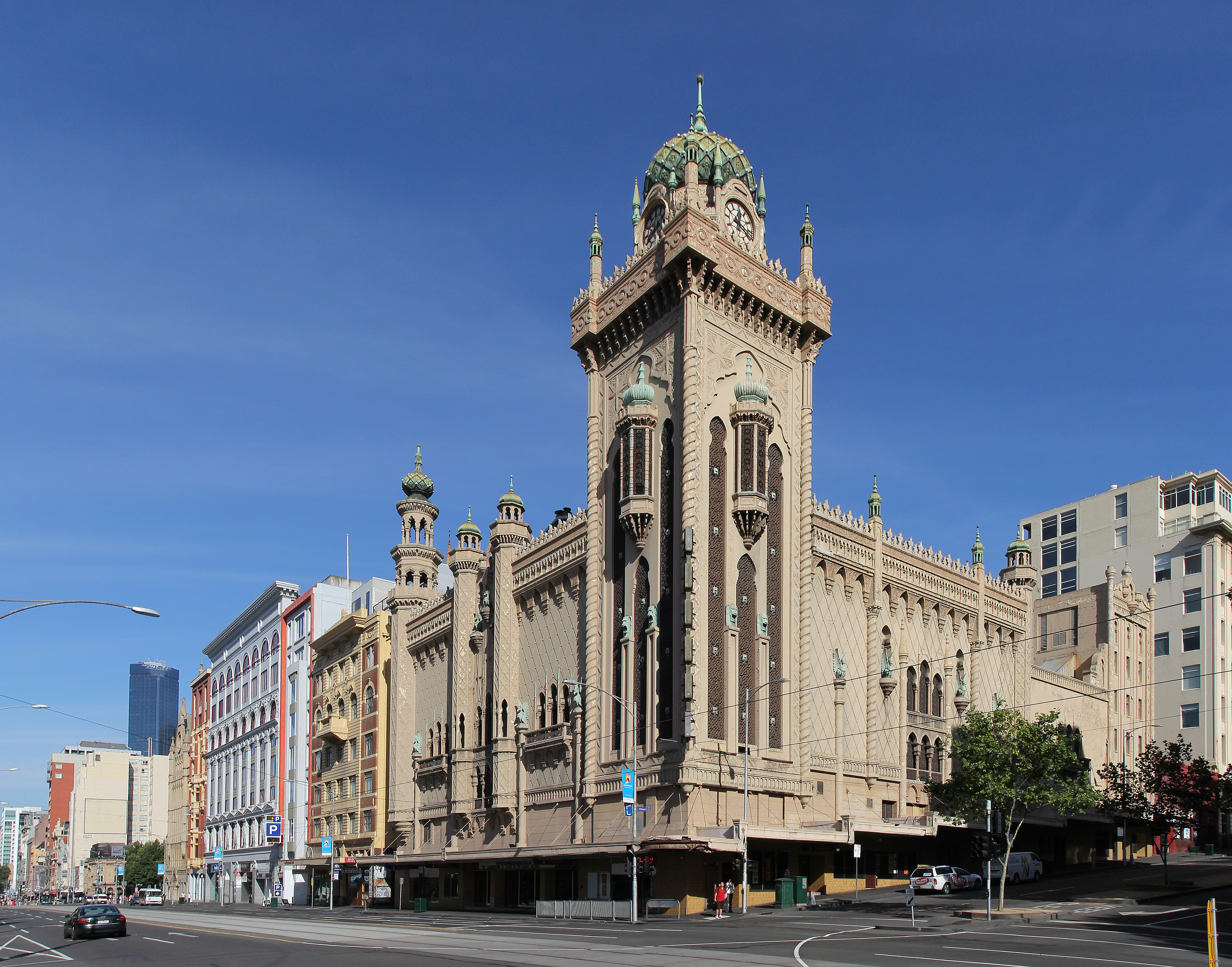 Forum Theater in Flinders Street, Melbourne